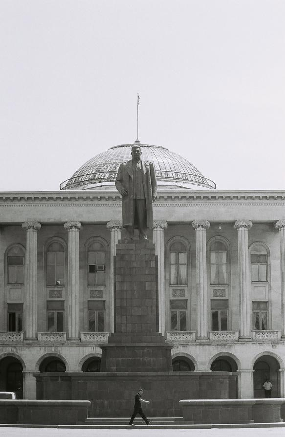 Town hall and Stalin memorial, Gori, Georgia